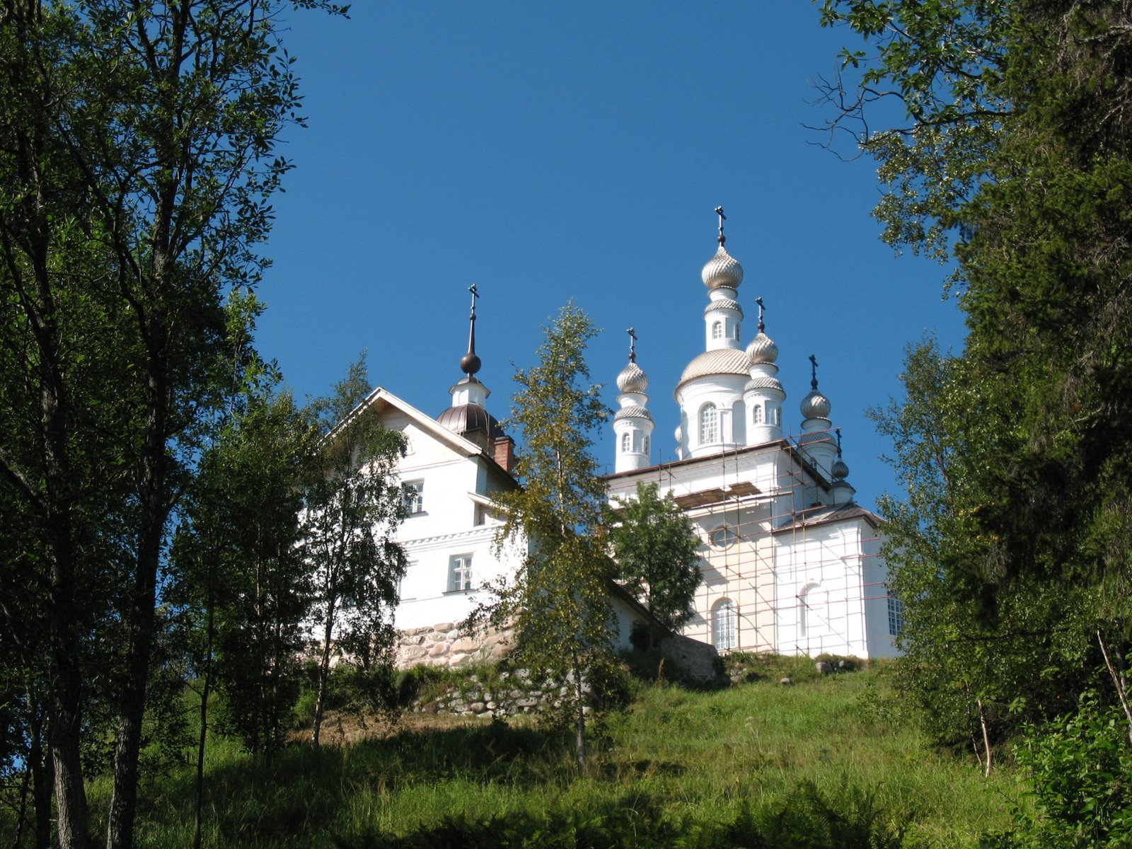 Golgotha Skete (monastery) at island Anzer, Solovki islands, Russia